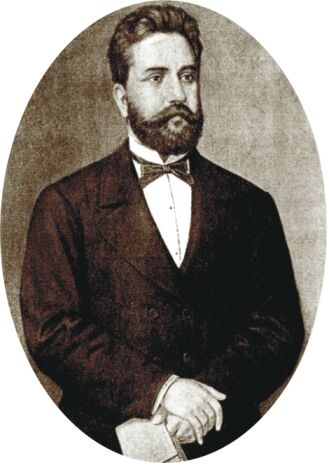 Dr. Ioan Mesota, romanian professor